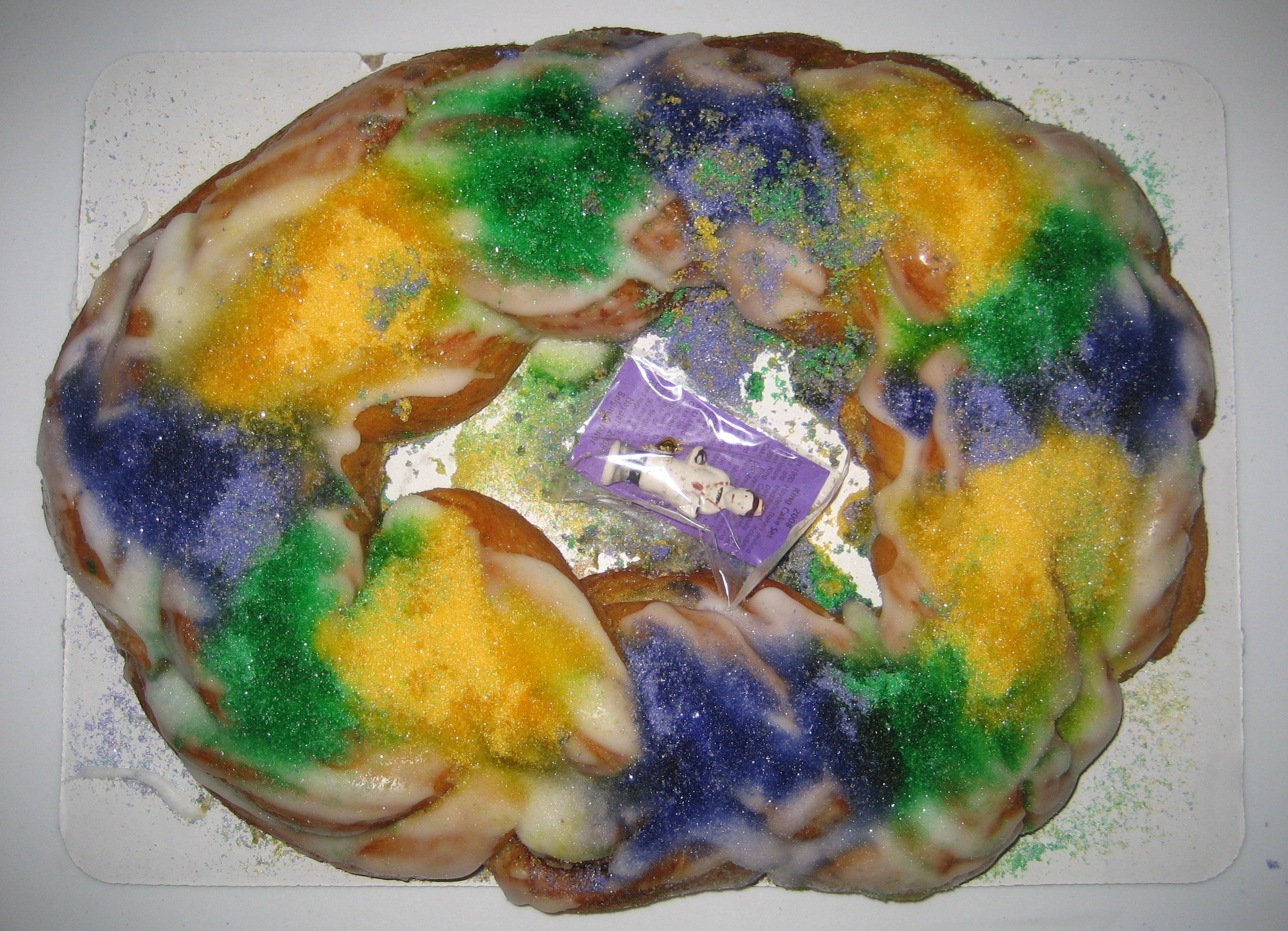 New Orleans "king cake". This example is a "plain" from Haydel's bakery.